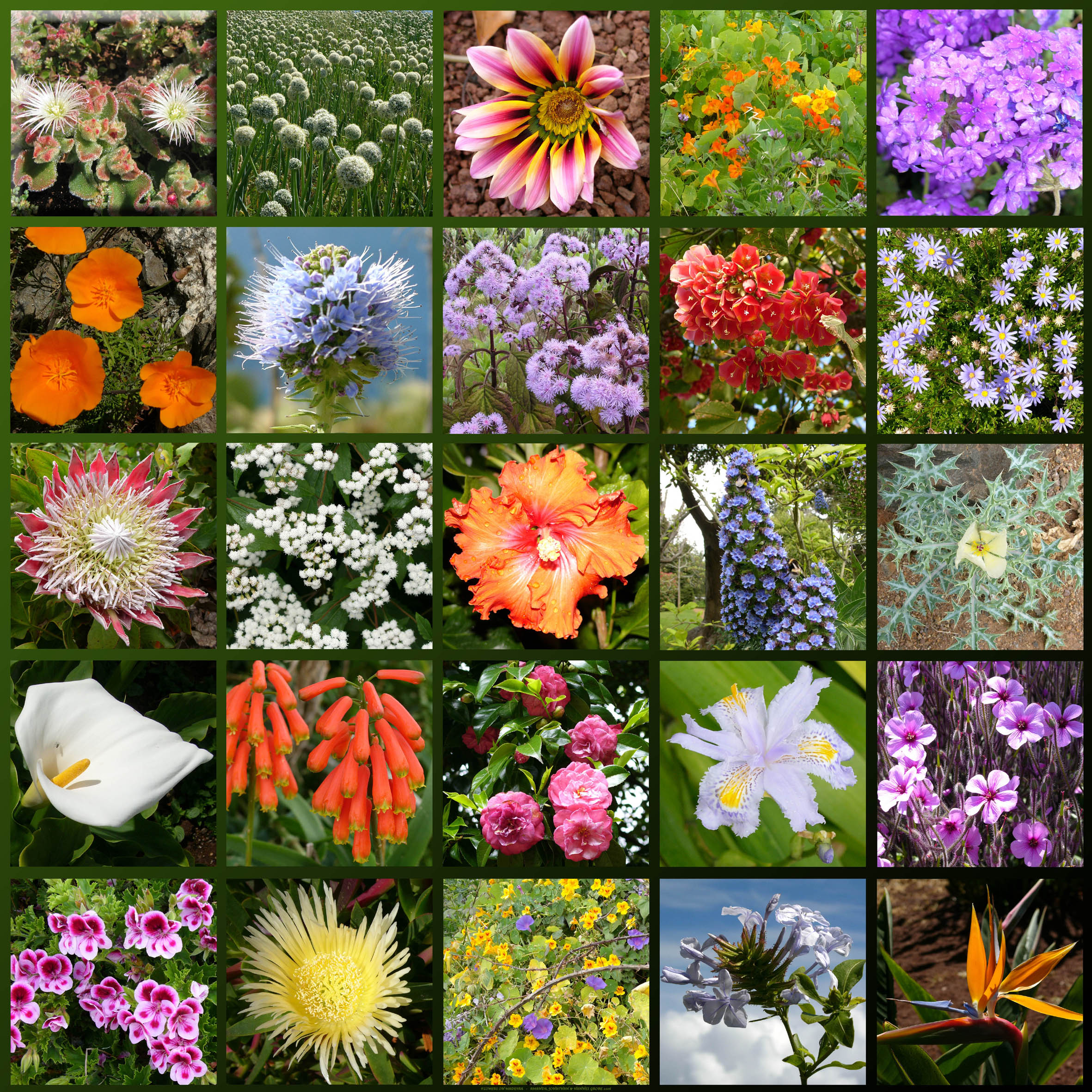 Various flower species from Madeira